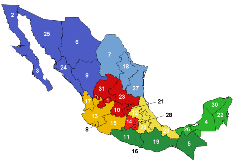 Map of Regions in Mexico